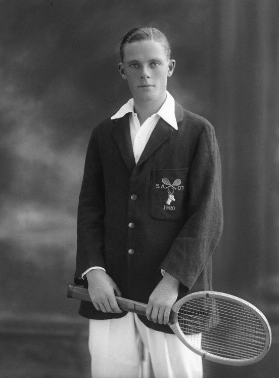 South African tennis player Brian Ivan Cobham Norton by Bassano, whole-plate glass negative, 6 August 1920